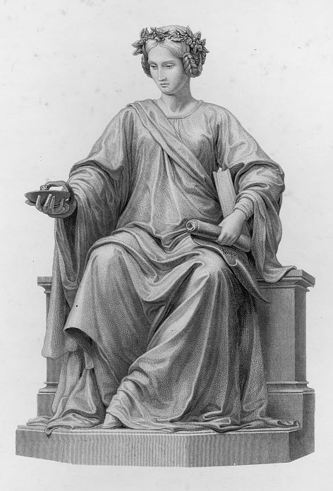 Allegorical statue of Medecine by Ernst Hähnel (1811-1891). Engraving by George J. Stodart.